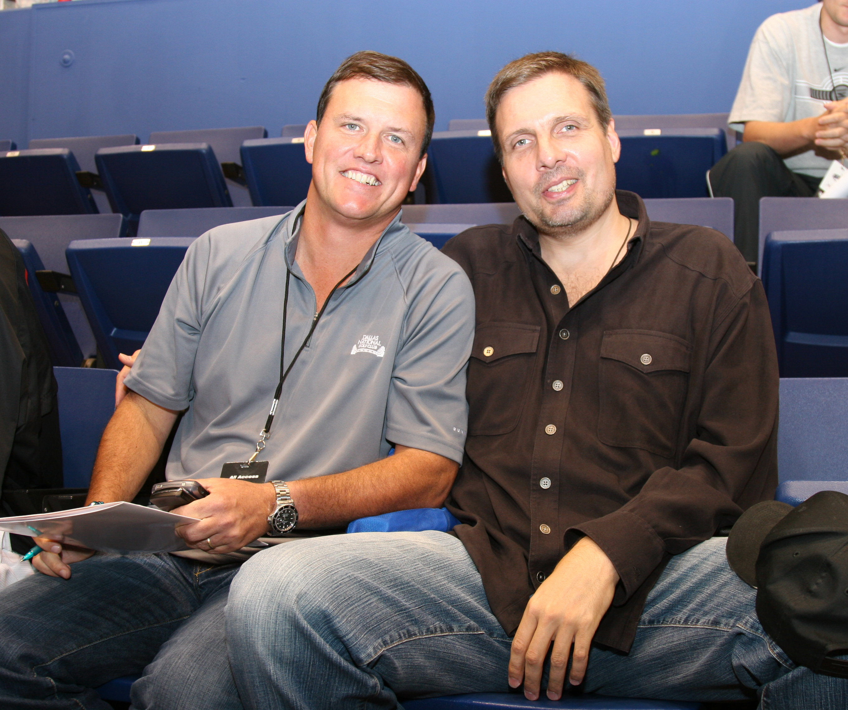 Charlie McKinney (left) and Donnie Nelson (right) watching USA U-19 Basketball Team game against China national team.